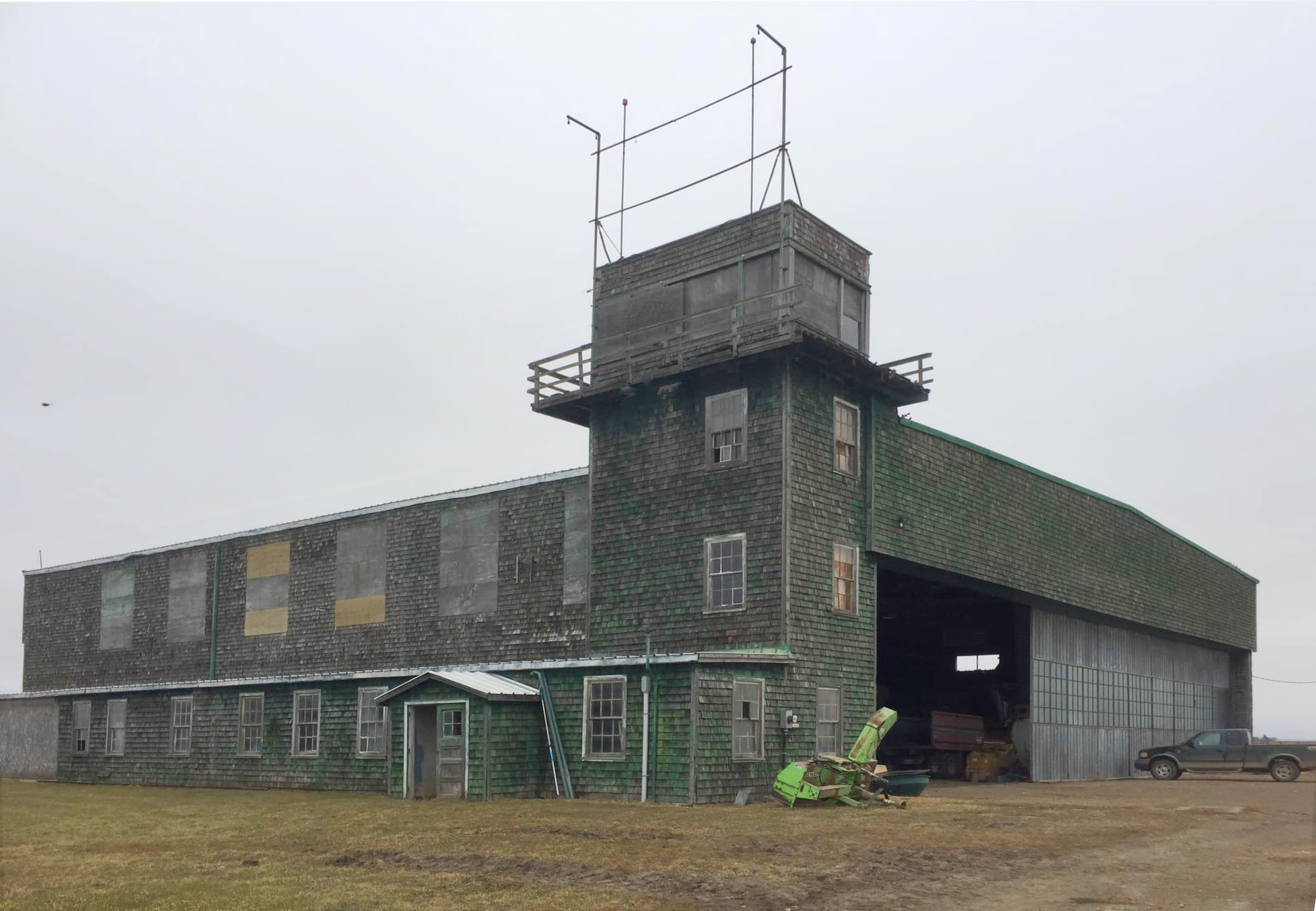 This is the hangar at RCAF Chater in 2019. It's a fine example of a British Commonwealth Air Training Plan relief field hangar, complete with control tower. The balcony on the fourth floor of the control tower is still there, as well as the masts on the roof which held flags and signals. The site is now a farm field and the hangar is used to store farm equipment.